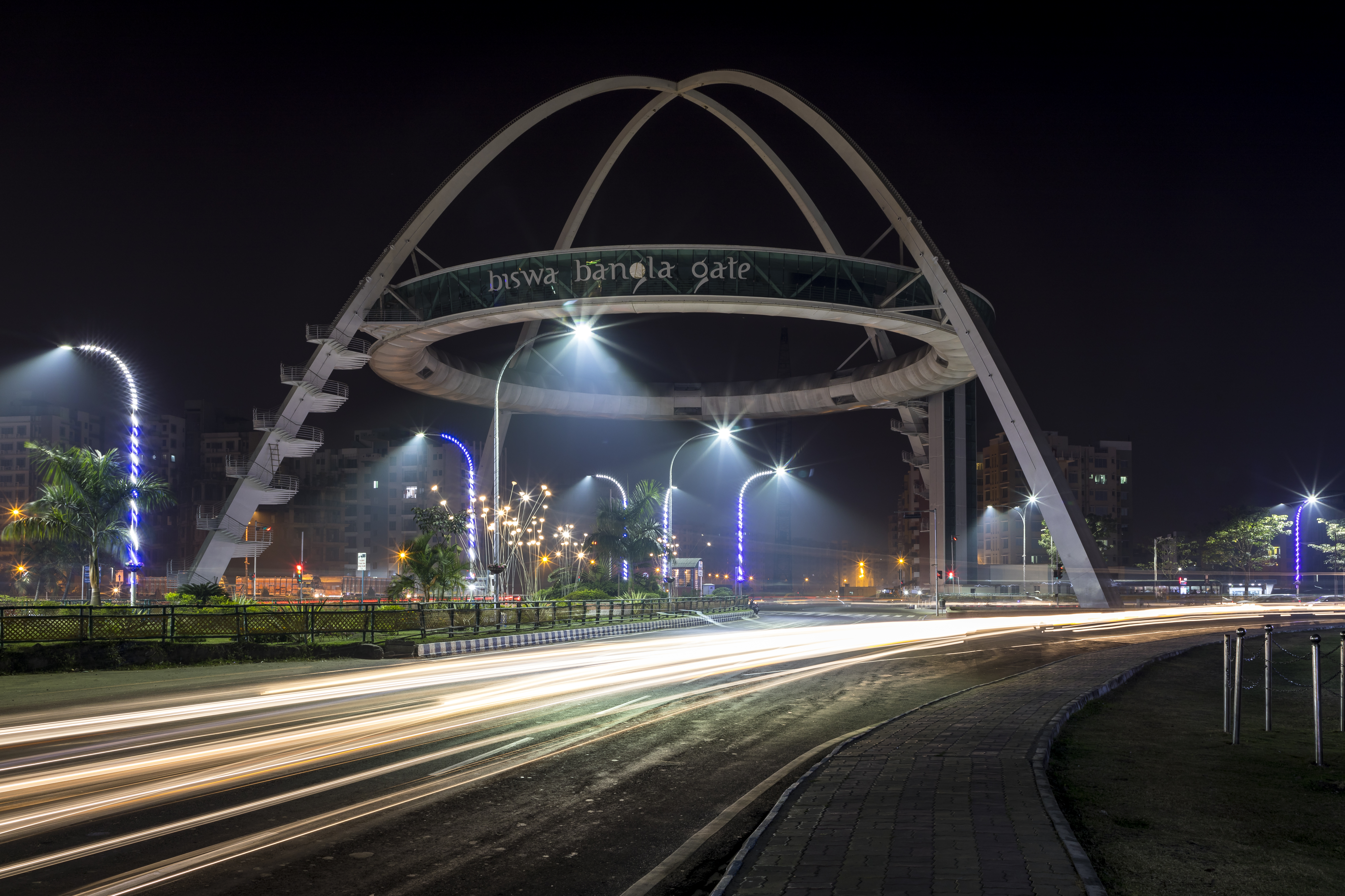 The Biswa Bangla Gate on Rajarhat Arterial Road, in Kolkata, West Bengal, India, at night. The gate was under construction when the photograph was taken.